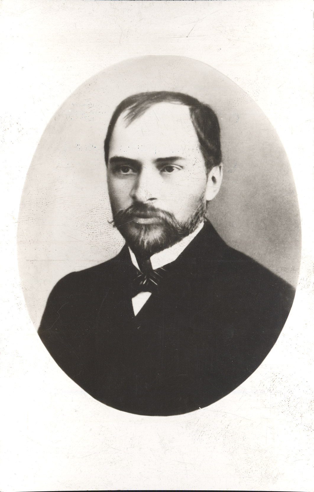 Romanian writer George Coșbuc